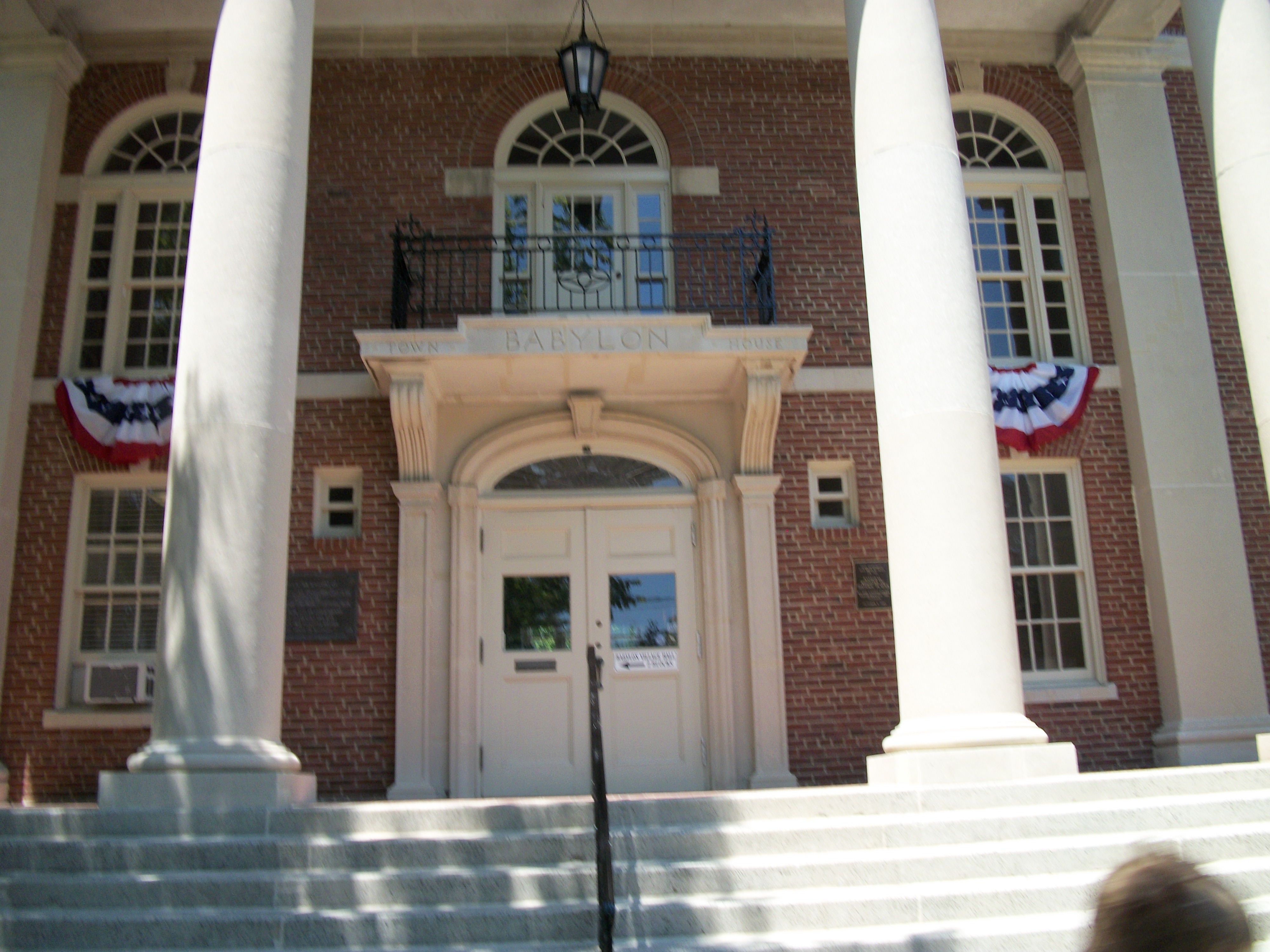 Blurry picture of the front doors of the original Babylon Town Hall in the Village of Babylon, New York.